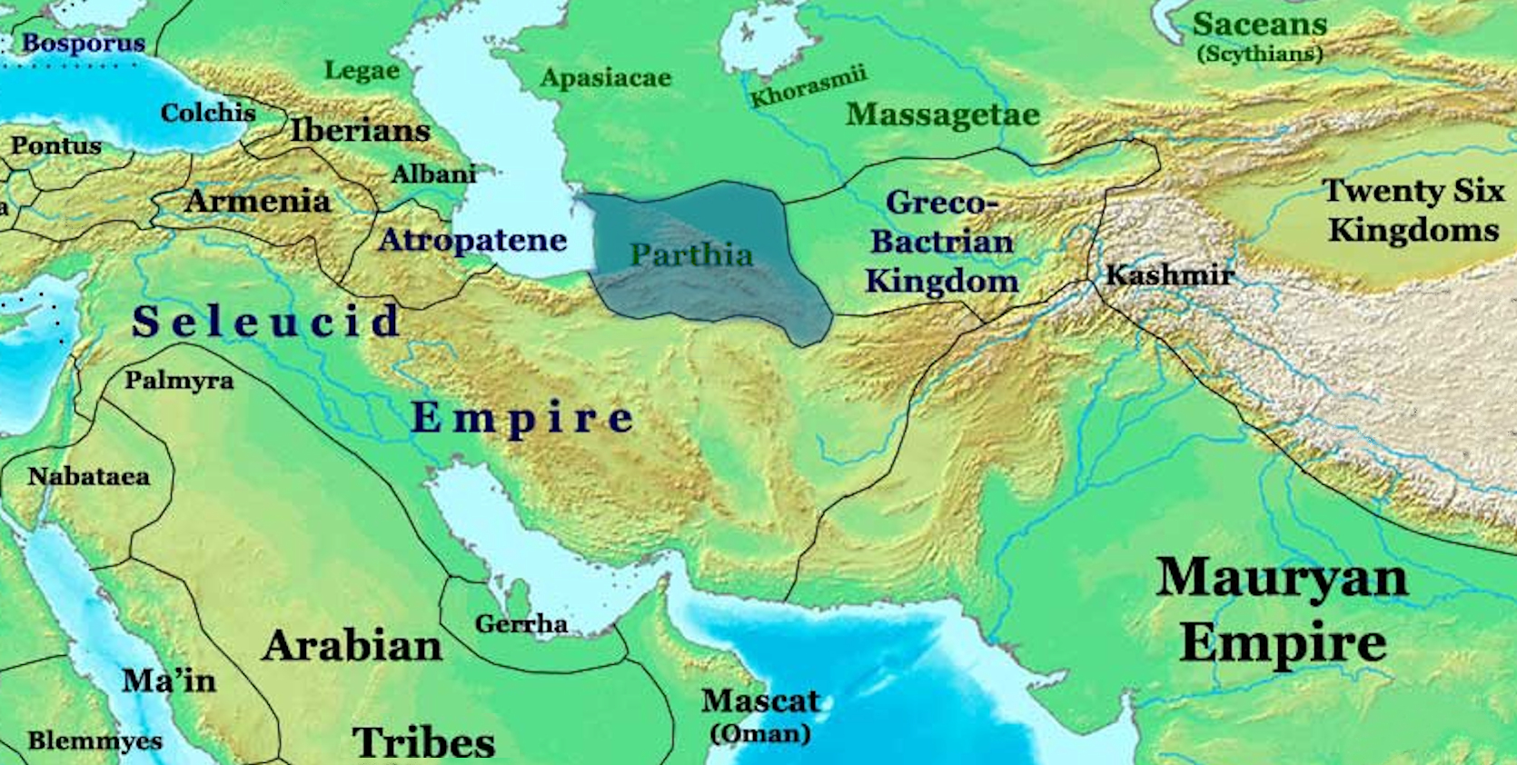 Parthia circa 200 BCE